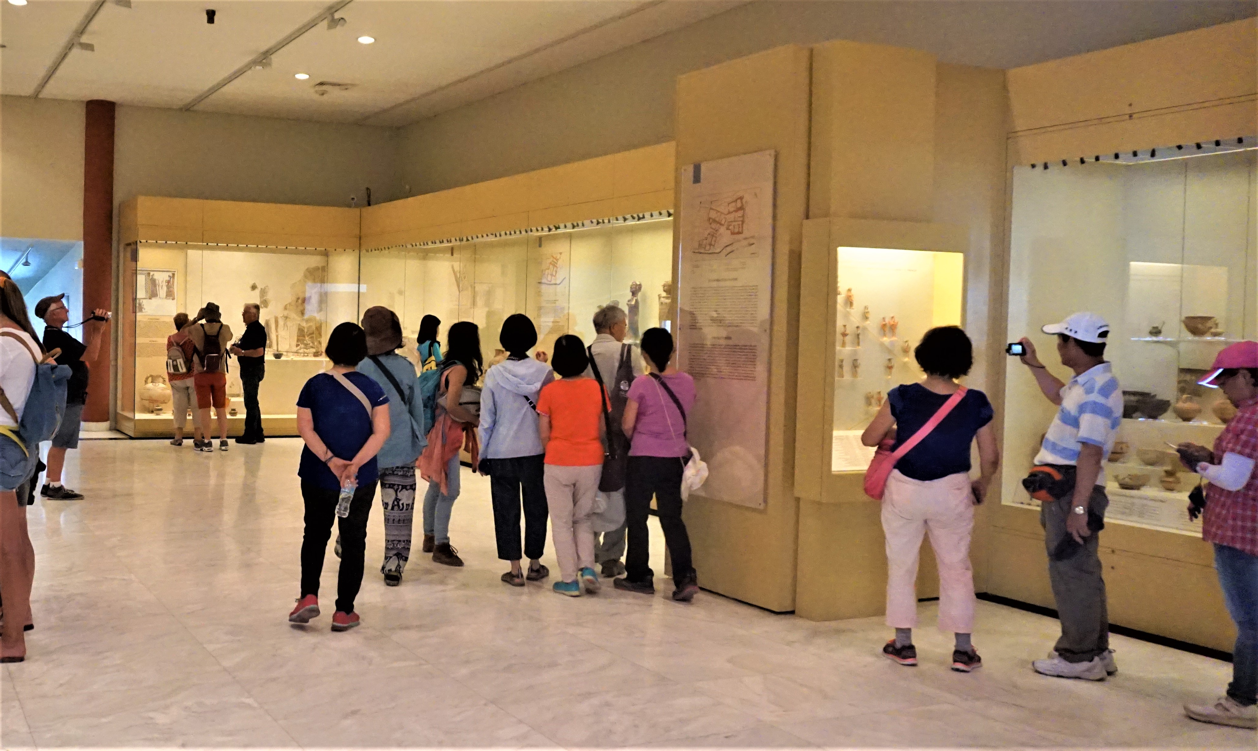 Archaeological Museum of Mycenae by Joy of Museums, for information